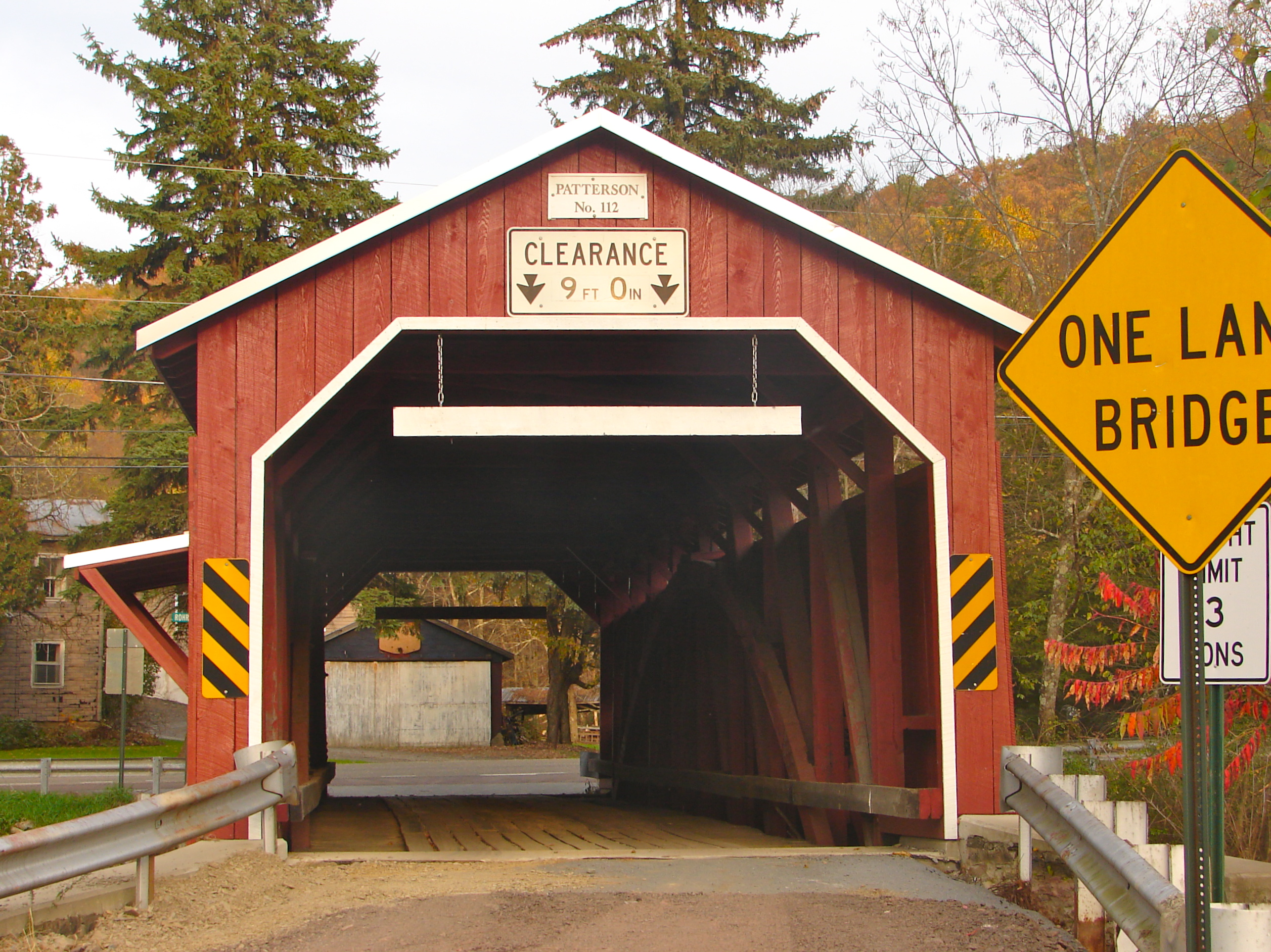 Patterson Covered Bridge No. 112 on the NRHP since November 29, 1979. On Pennsylvania Route 575, north of Orangeville, Orange Township, Columbia County, Pennsylvania